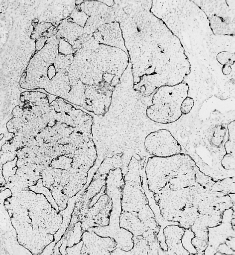 CNS: OLFACTORY NEUROBLASTOMA The lobules are typically surrounded by, and may contain, cells that are immunoreactive for S-100 protein. Such cells are similar to the sustentacular cells of paraganglioma.